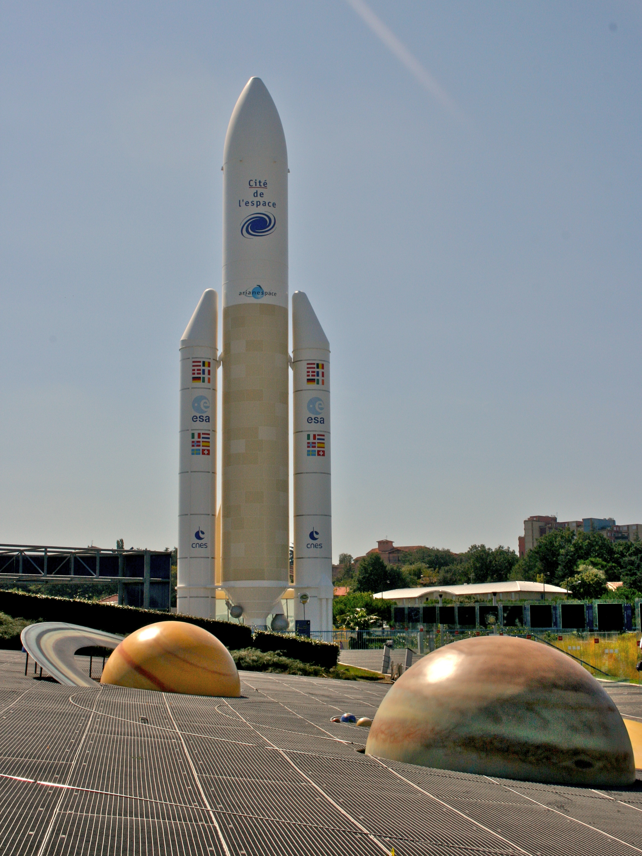 An Ariane 5 rocket, with models of Saturn and Jupiter in the foreground, at Cite de l'espace in Toulouse, France.